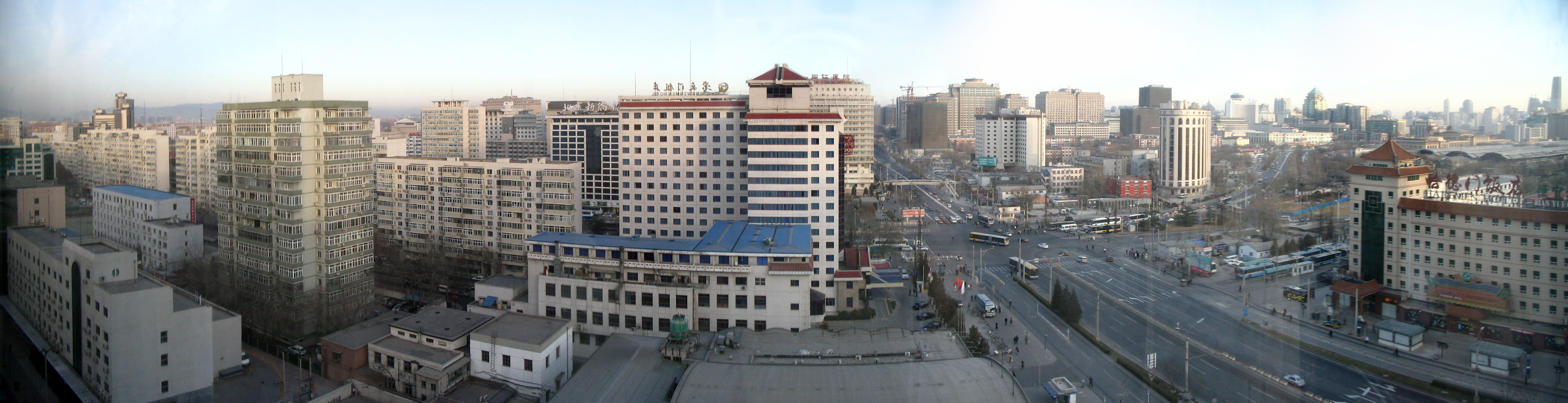 Panoramic photo of Chongwenmen, combined from 2135172857, 2135953158, 2135174895, 2135175889, 2135176805, 2135957054, 2135178635 and 2135179489